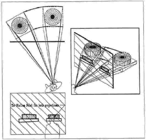 Fig 3. After pivoting object to remain facing the viewer the image is distorted, but to the viewer, the image is unchanged.